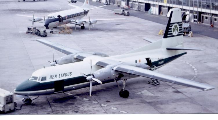 Aer Lingus Fokker F27 Friendship at Manchester.